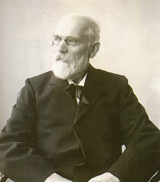 Johannes Diderik van der Waals